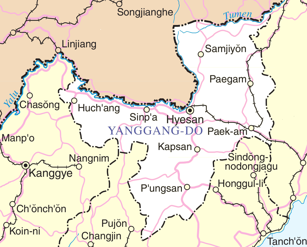 Map of Ryanggang-do, cropped from Un-north-korea.png